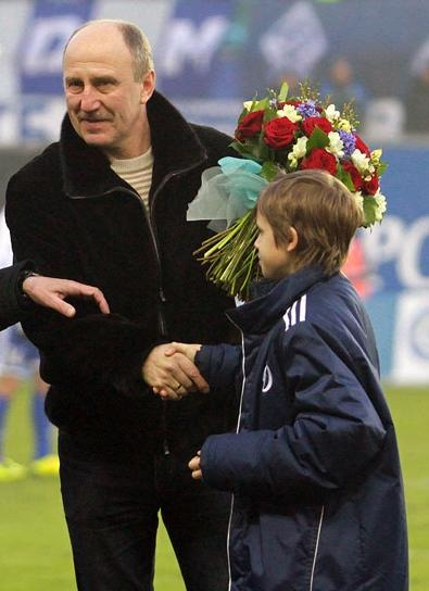 Aleksandr Novikov before a FC Dynamo Moscow game in 2012.